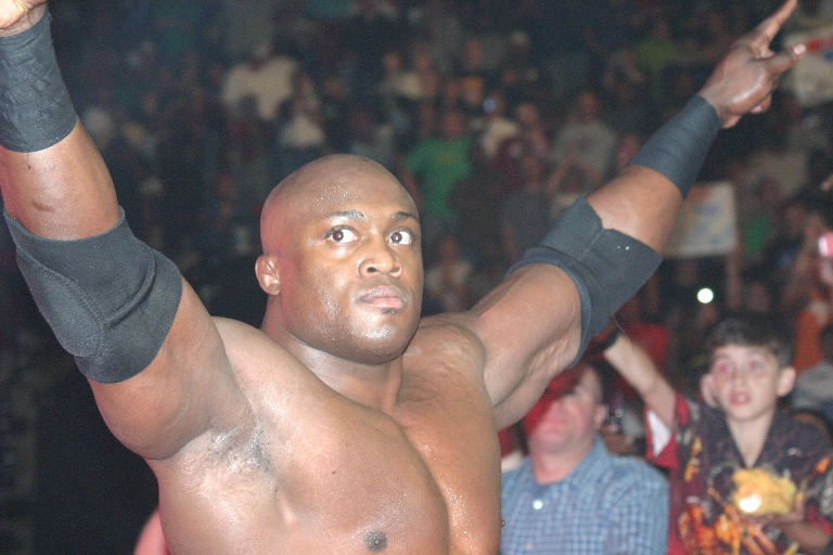 Lashley making his entrance during an ECW house show. Bobby Lashley represented Donald Trump in the "Battle of the Billionaires". Bobby Lashley, who faced off against John "Bradshaw" Layfield (JBL).